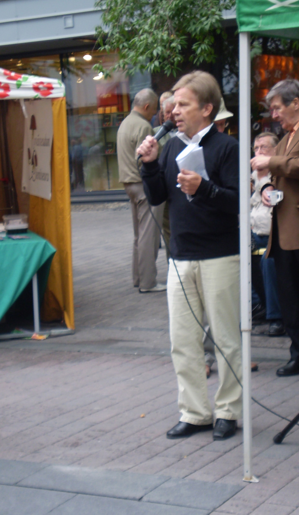 Mauri Pekkarinen, a finnish politician speaking on Kävelykatu of Jyväskylä, Finland.